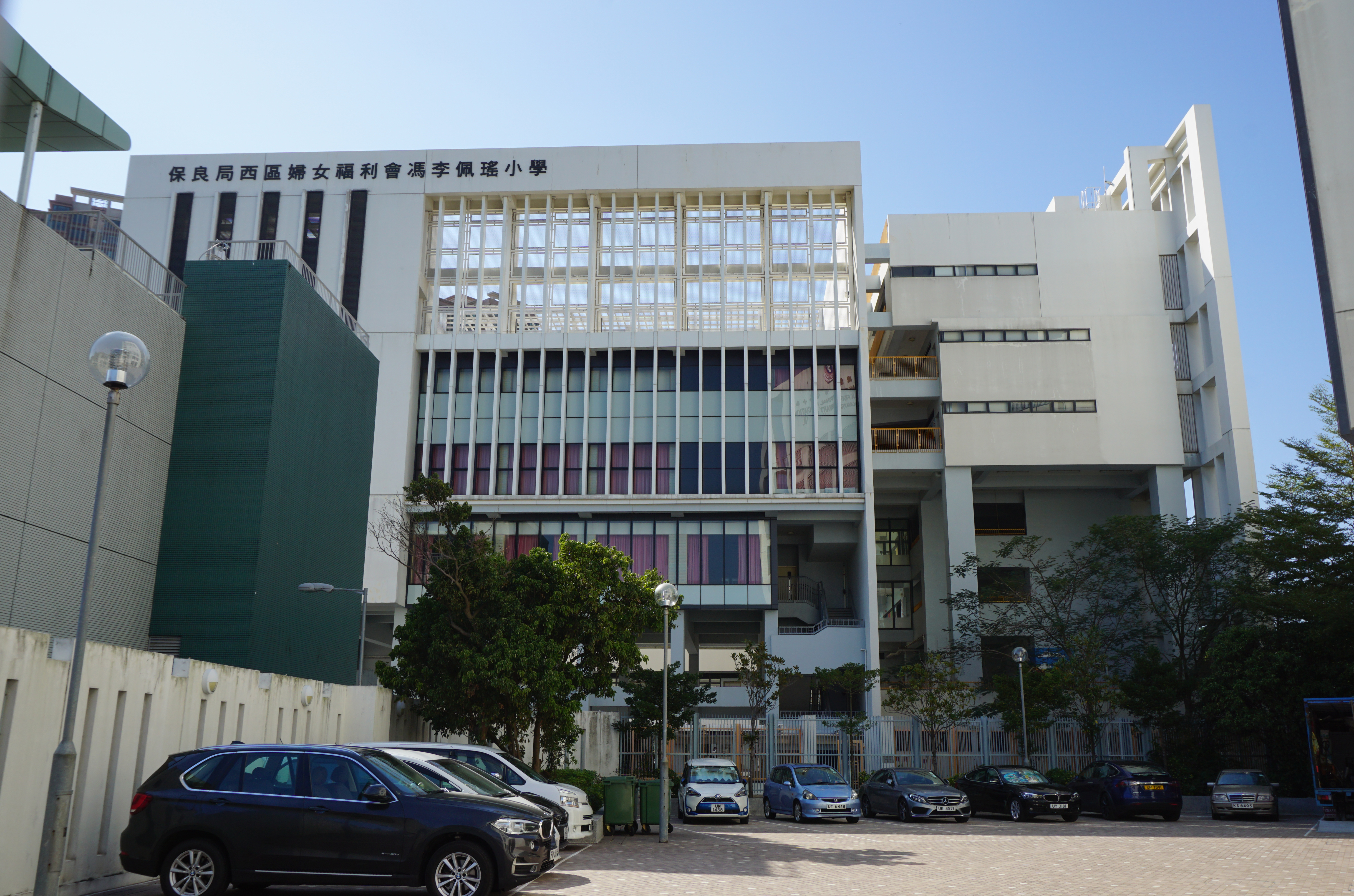 PLK Women's Welfare Club Western District Fung Lee Pui Yiu Primary School in So Kwun Wat, Hong Kong.